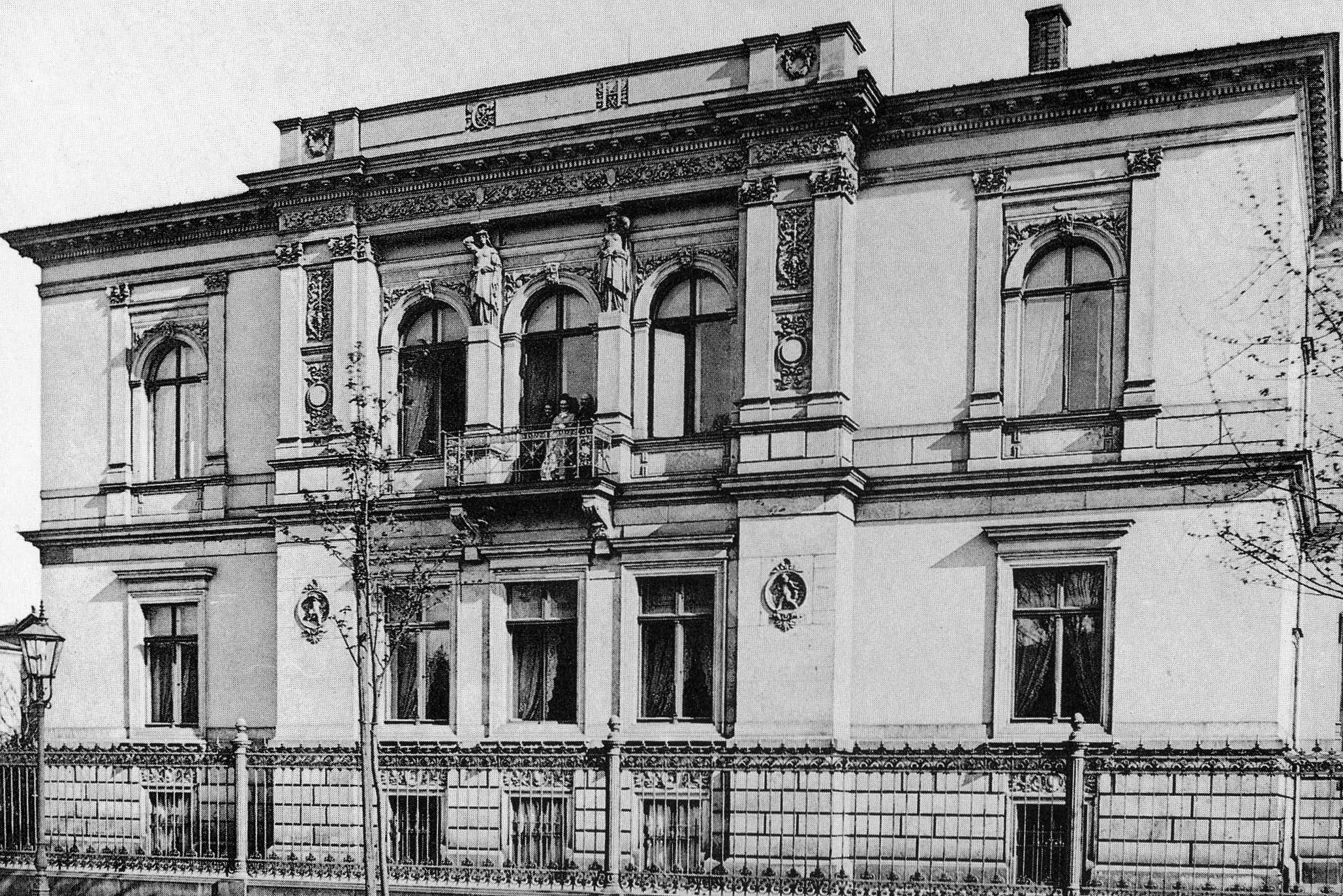 Dresden Haus Beuststraße 2 um 1875 (zerstört)